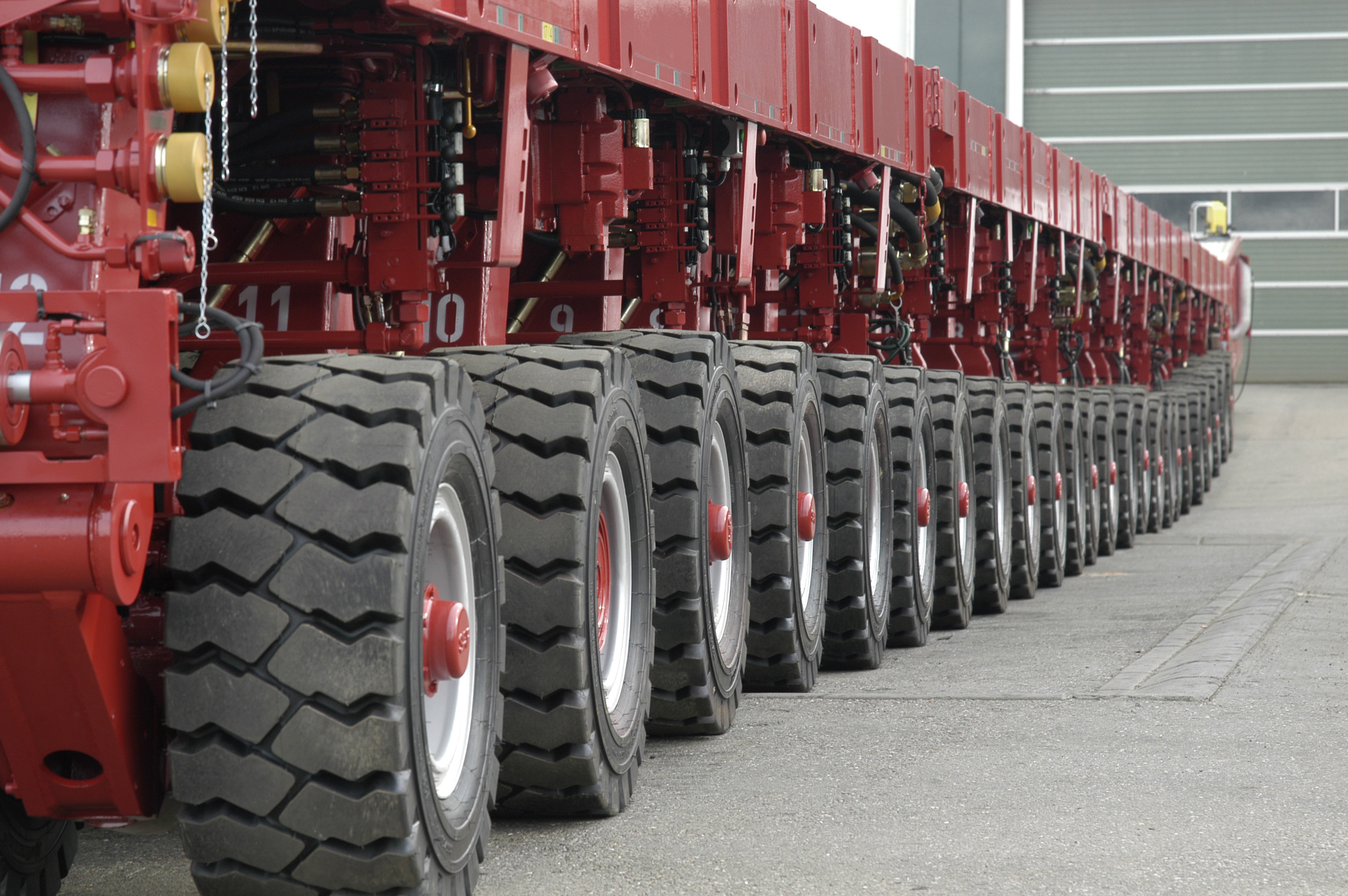 Self-propelled modular transporter axle lines